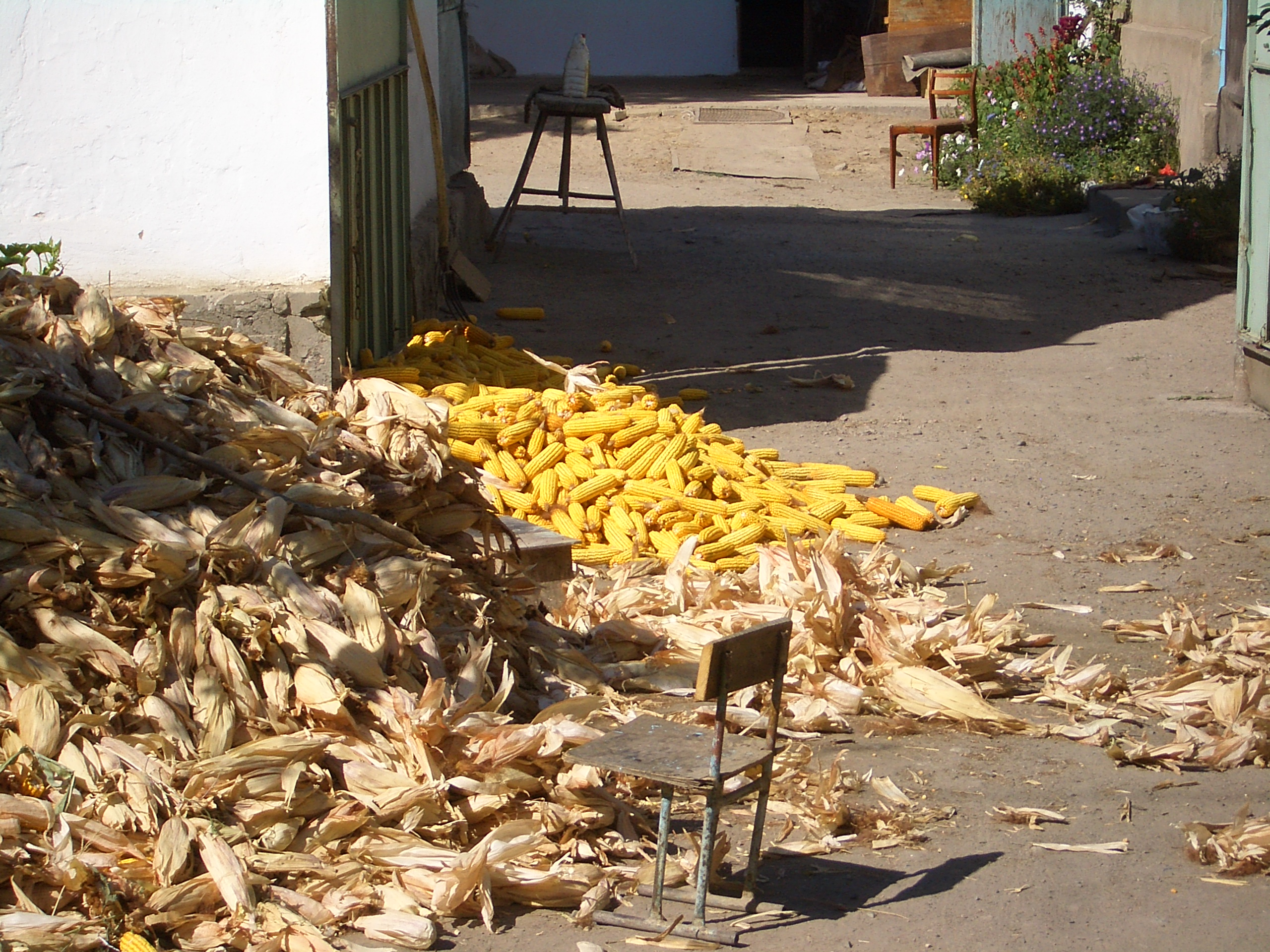 Corn (maize) being husked in front of a house in Milyanfan, Kyrgyzstan.